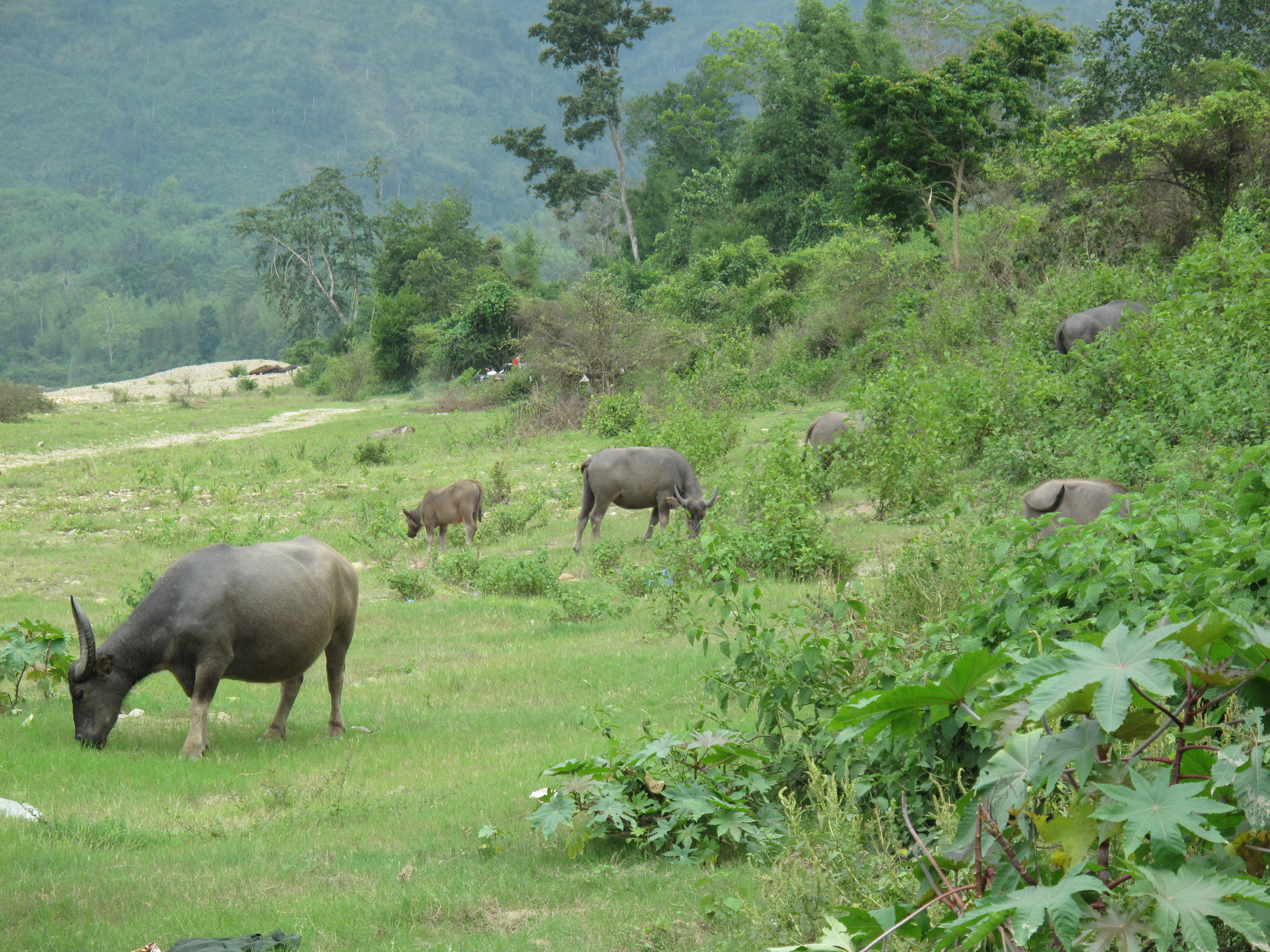 Wildlife in Tang Hpre village near Myitsone Dam project area